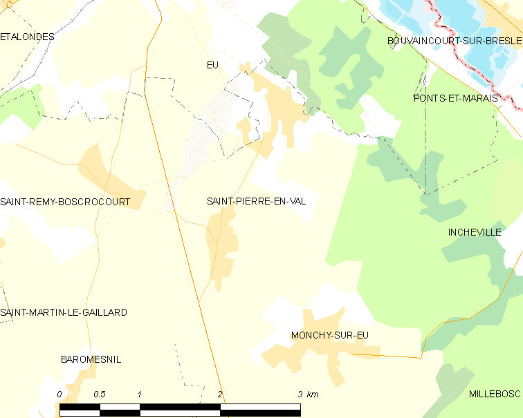 Map of French municipality Saint-Pierre-en-Val